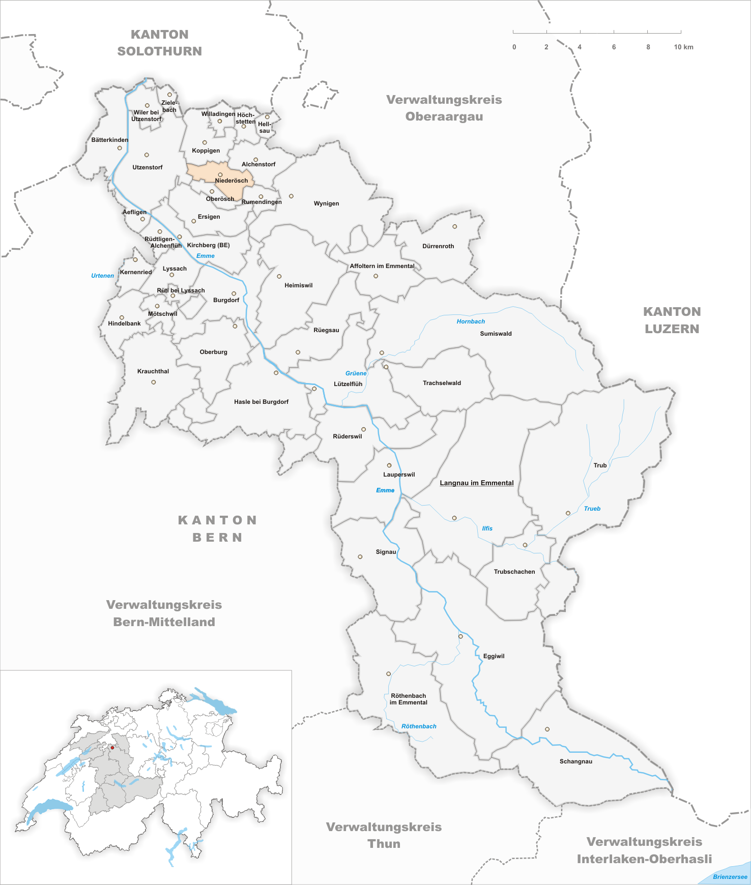 Municipality Niederösch